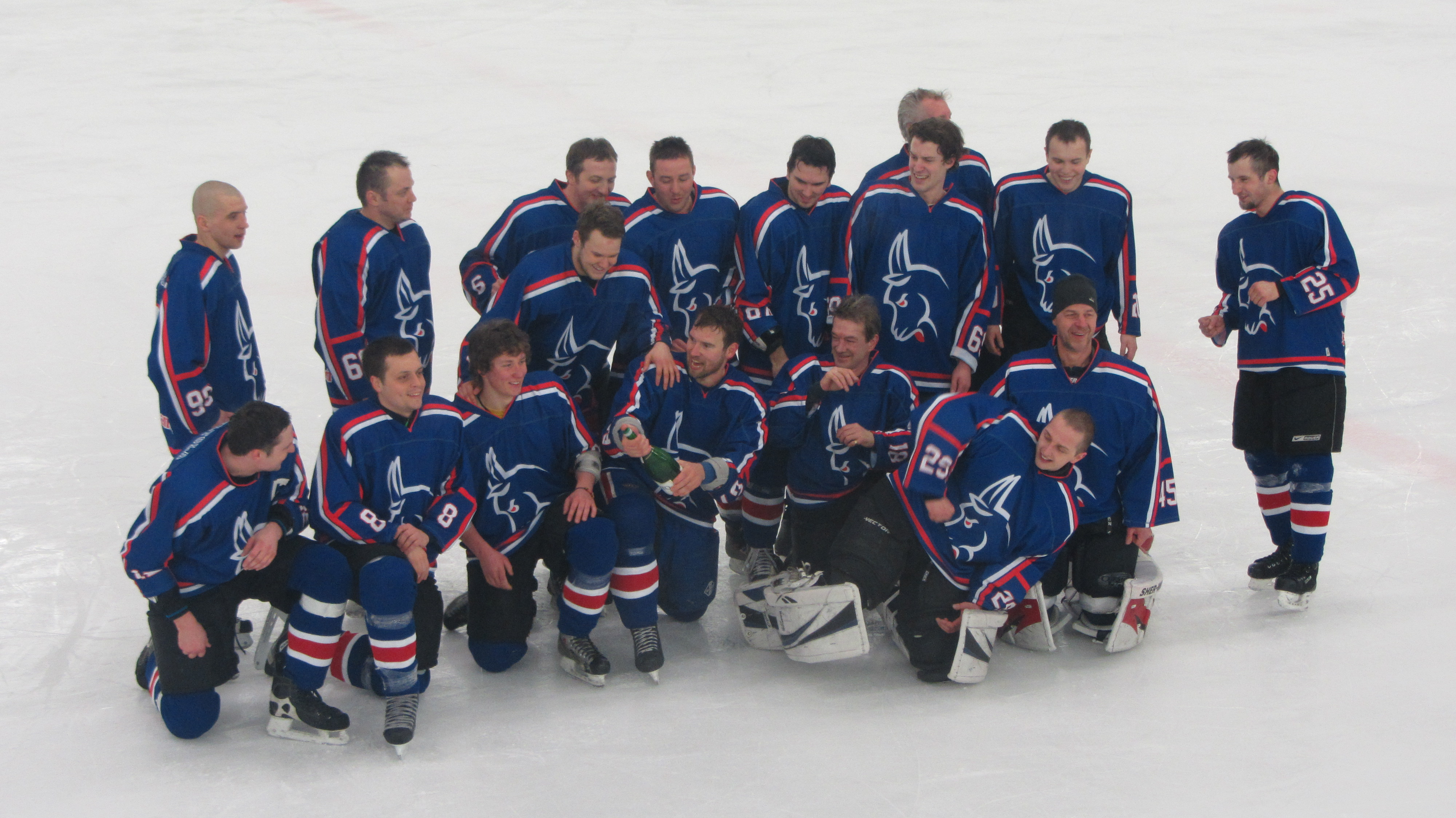 Champions team - PTH Poznań